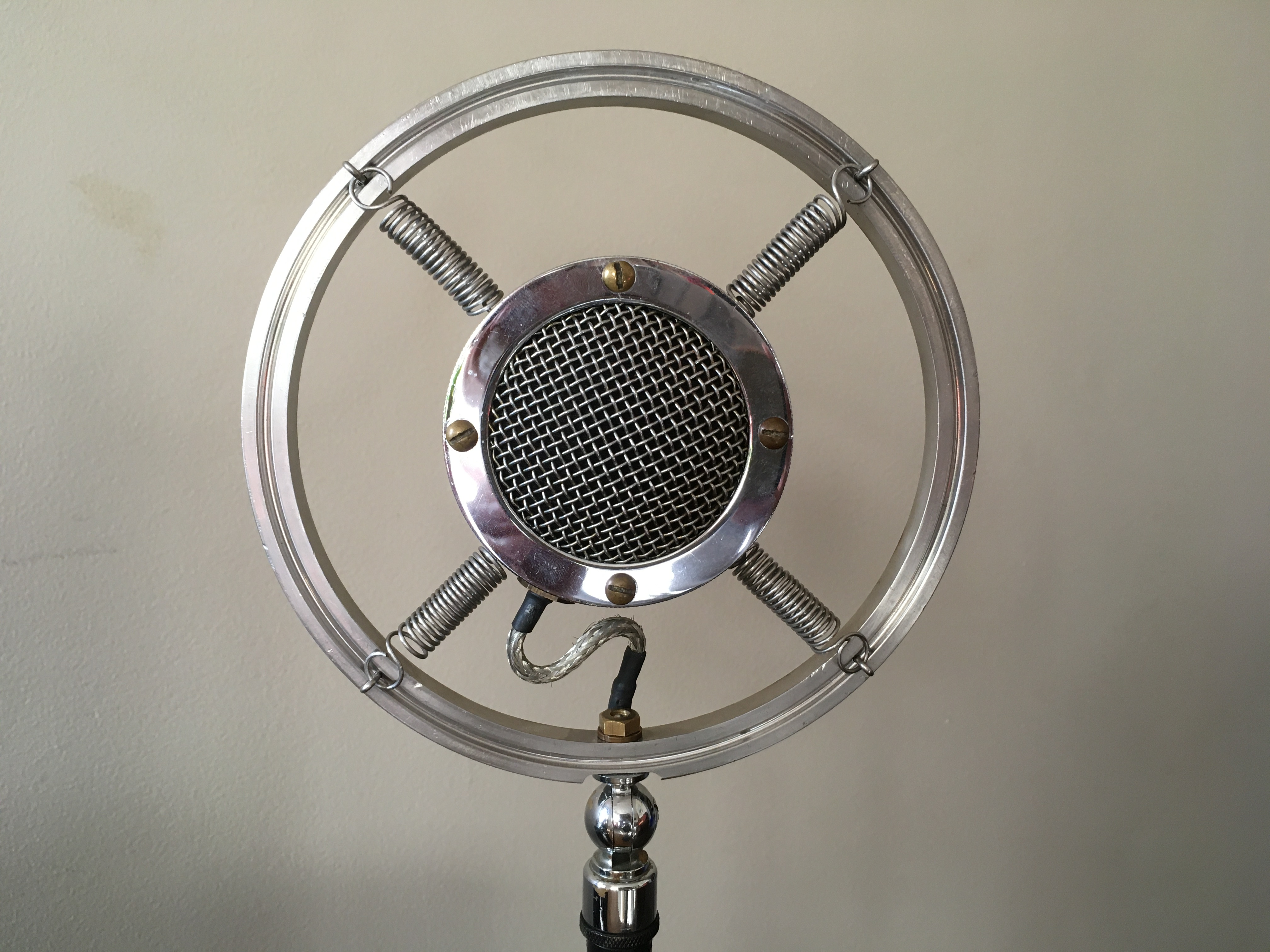 Vintage crystal microphone manufacted by Astatic Corporation on ring and spring mount